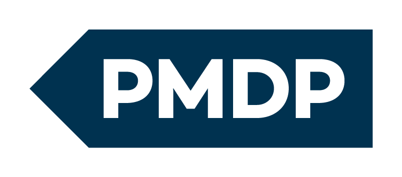 logo pmdp